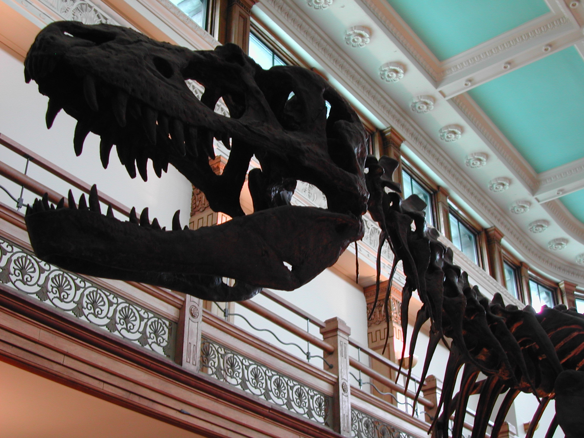 Gorgosaurus (formerly Albertosaurus) libratus skull and neck set against the beaux art style decorations within the Redpath Museum, Montreal, Quebec. Picture taken March 2003.